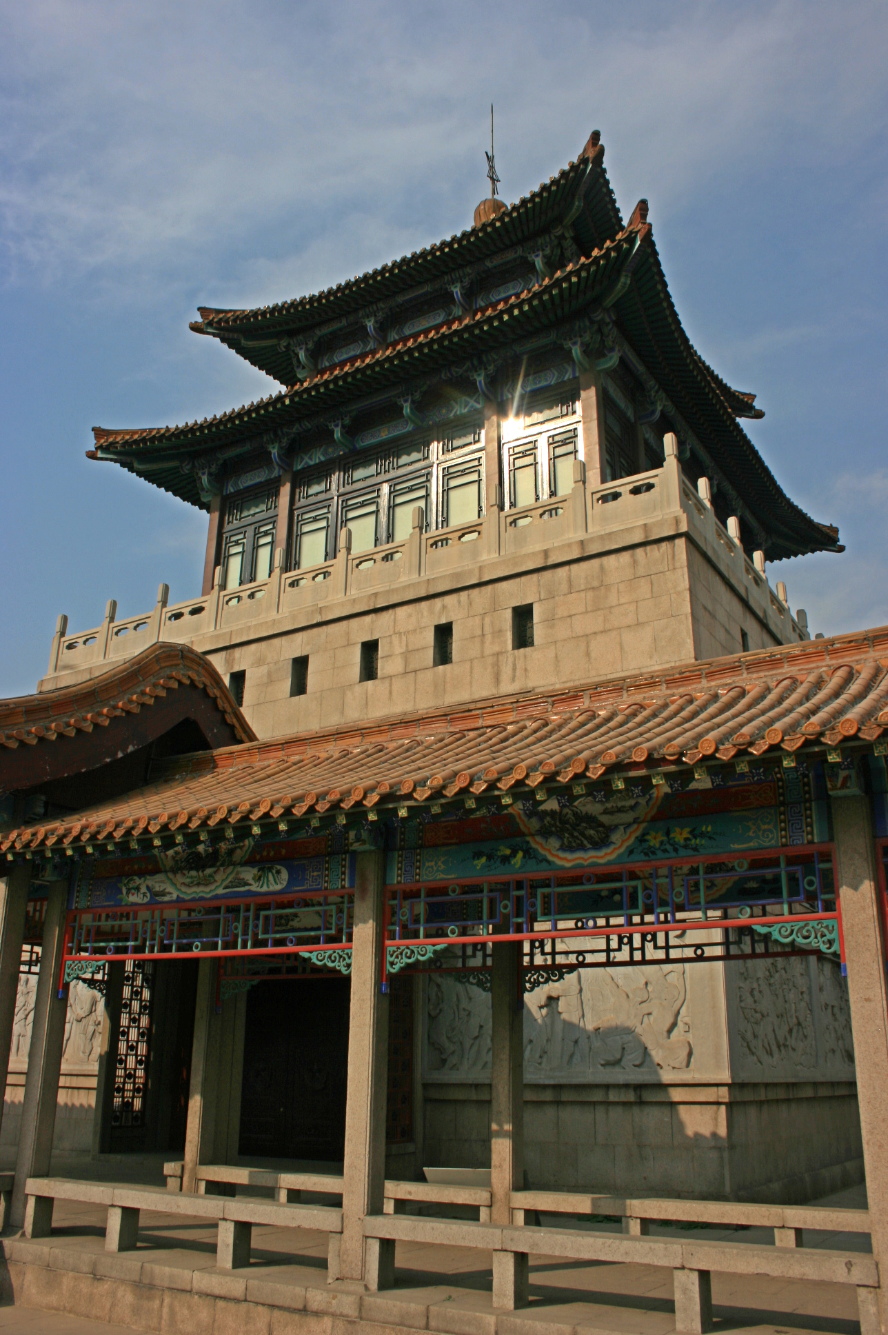 Liberation Pavilion in the city of Jinan, Shandong Province, China.